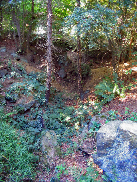 The Gorge, Warley Place, Great Warley. Warley Place was one of the foremost gardens of the late-victorian period, and the owner, Ellen Willmott had this man-made 'gorge' build as part of the 'natural' garden.